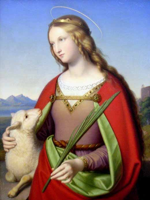 Sant'Agnese Vergine e martire